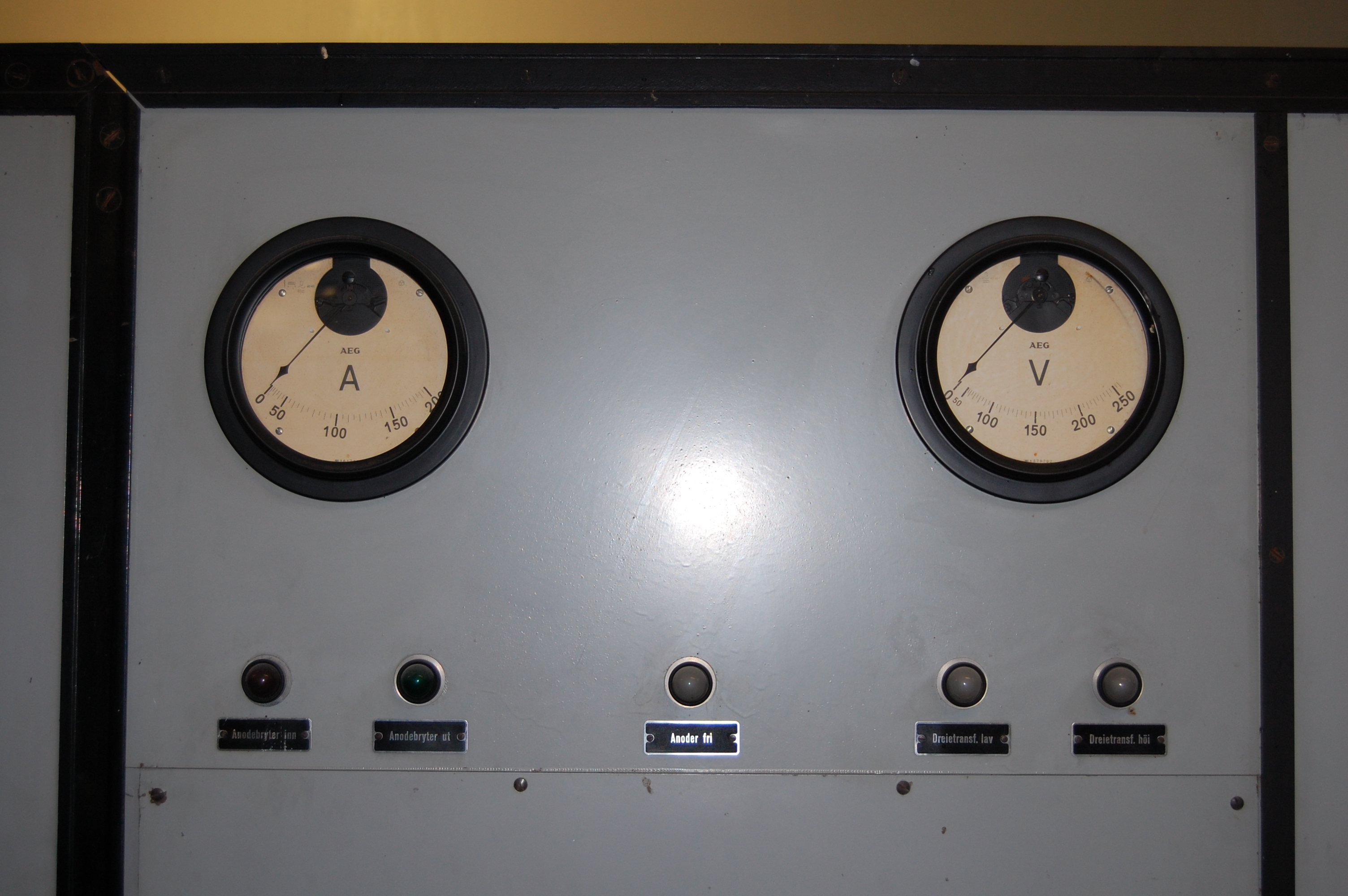 Ampere and Volt-meter designed by Peter Behrens for AEG at Bergen kringkaster, Norway.